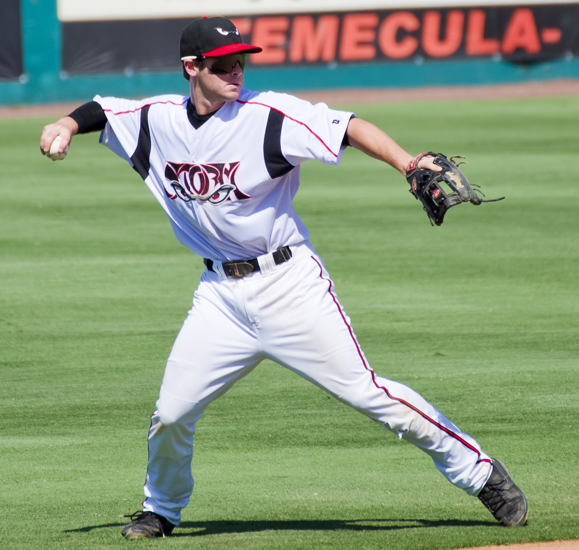 Cory Spangenberg of the Lake Elsinore Storm, minor league baseball player in San Diego Padres farm system 2012